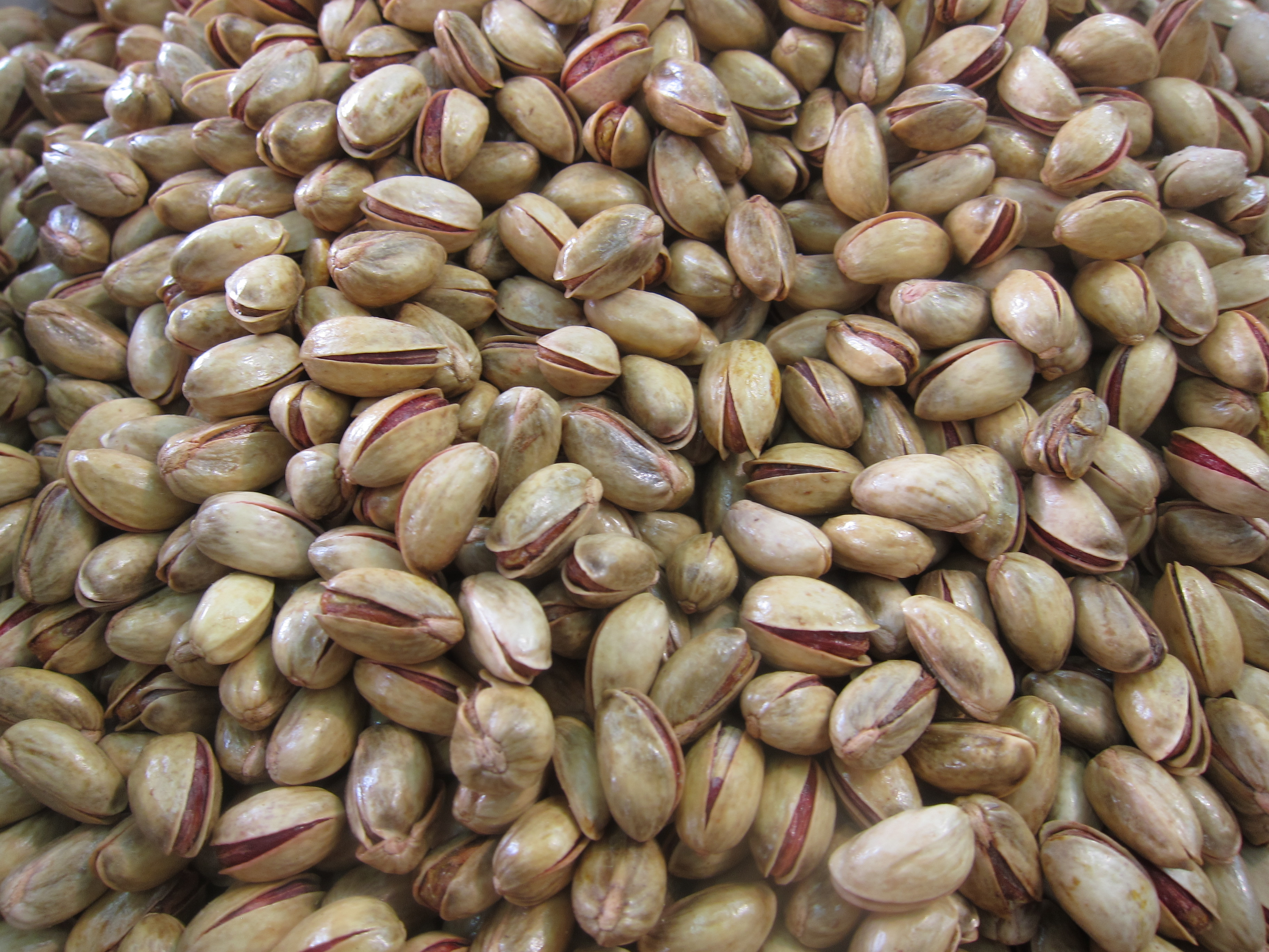 Pistachio Pista പിസ്റ്റ പിസ്ത